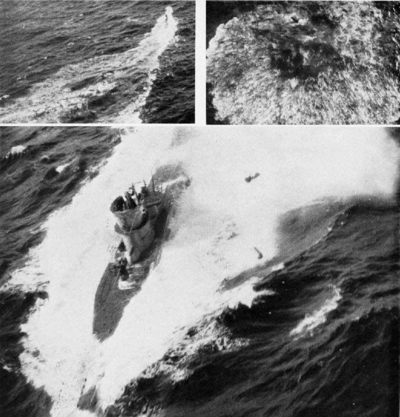 Photos of an attack of two U.S. Navy Grumman TBF Avenger aircraft from the aircraft carrier USS Bogue (CVE-9) on the German Type VIIC submarine U-569 on 22 May 1943. The submarine had to be scuttled in the North Atlantic (position 50.40N, 35.21W), after being badly damaged by depth charges. 21 sailors were killed aboard, the captain, two officers and 22 ratings survived and were rescued an hour later by HMCS St. Laurent (H83).